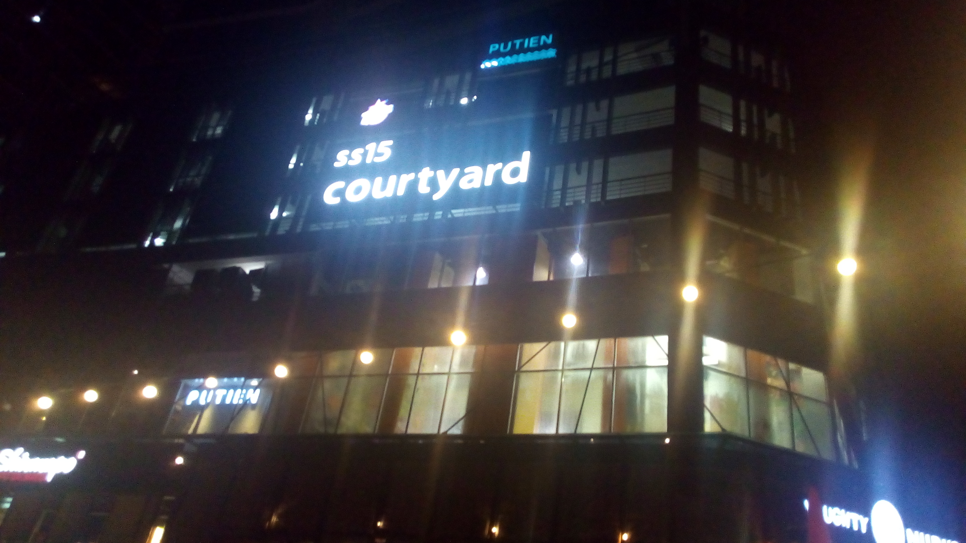 SS15 Courtyard